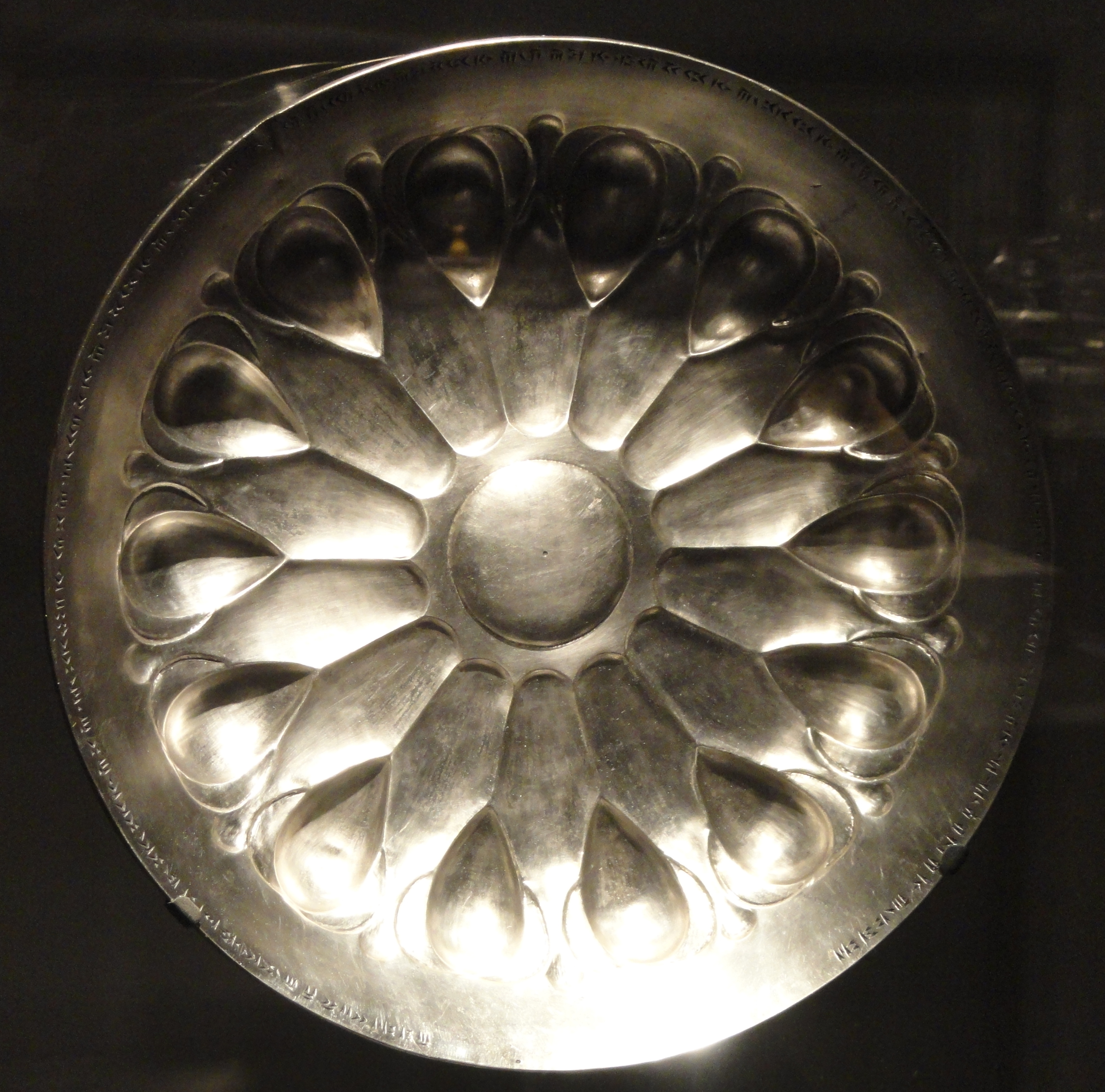 Exhibit in the Arthur M. Sackler Gallery, Washington, DC, USA. This artwork is old enough so that it is in the public domain.